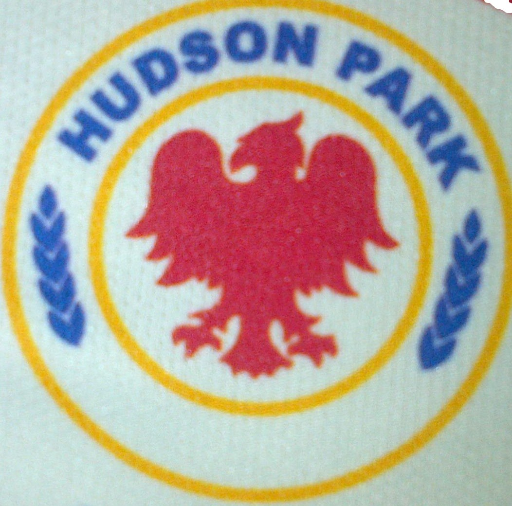 The logo of Hudson Park High School in East London,South Africa